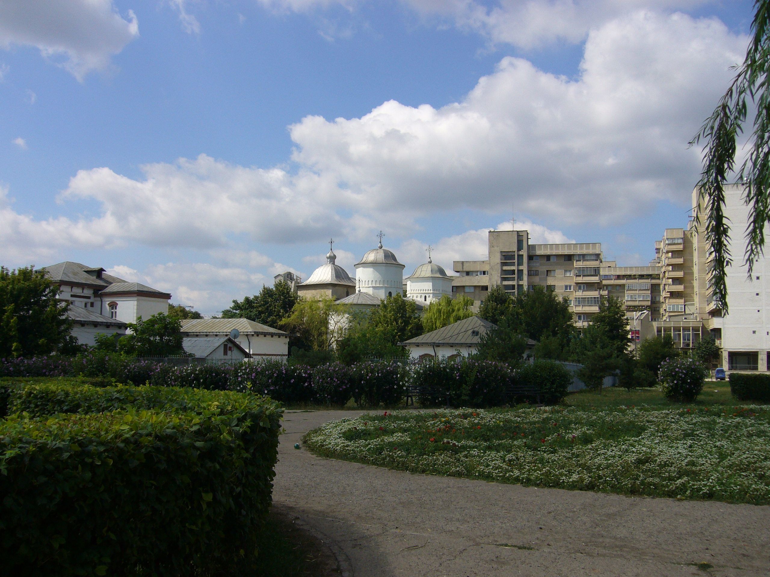 Biserica Barnovschi